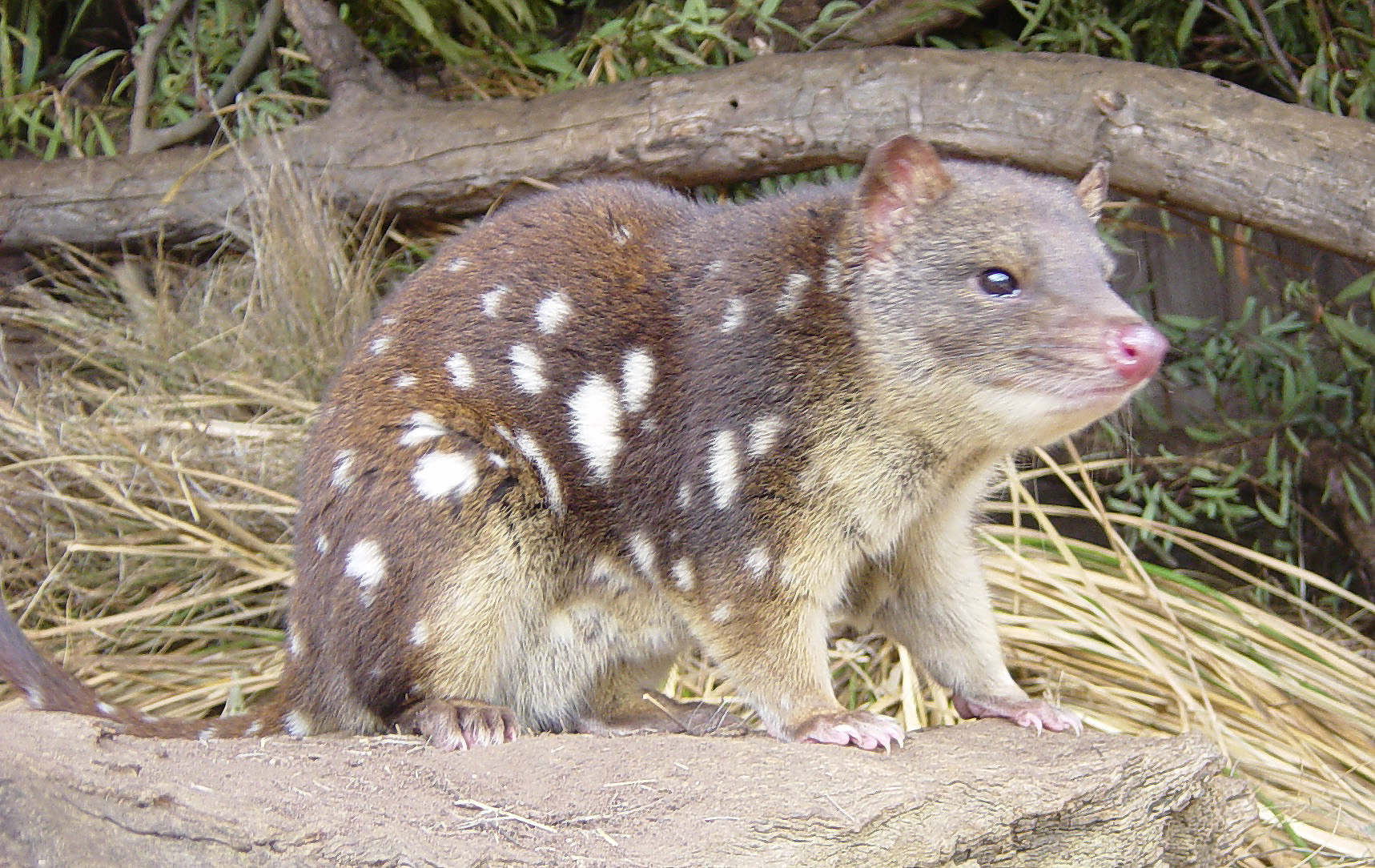 Quoll imaged at a rescue park, Tasmania, Austrailia, probably Tiger Quoll (Dasyurus maculatus), indicated by spots on tail Photographer's note. This is a lucky through-the-fence shot using an old Sony camera as the animal was quite active. The small size of the lens is a distinct advantage in this case (my Canon xTi would not have been able to get the shot).